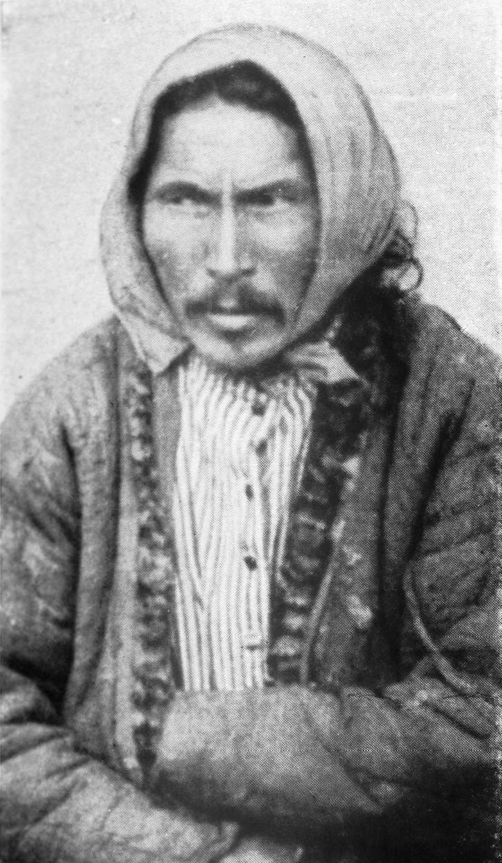 Yenisei-Ostiak